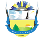 Coat of arms of the city of Normandia, Pacaraima, Brazil.